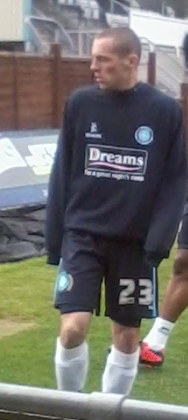 Bristol Rovers v Wycombe Wanderers 16 February 2013